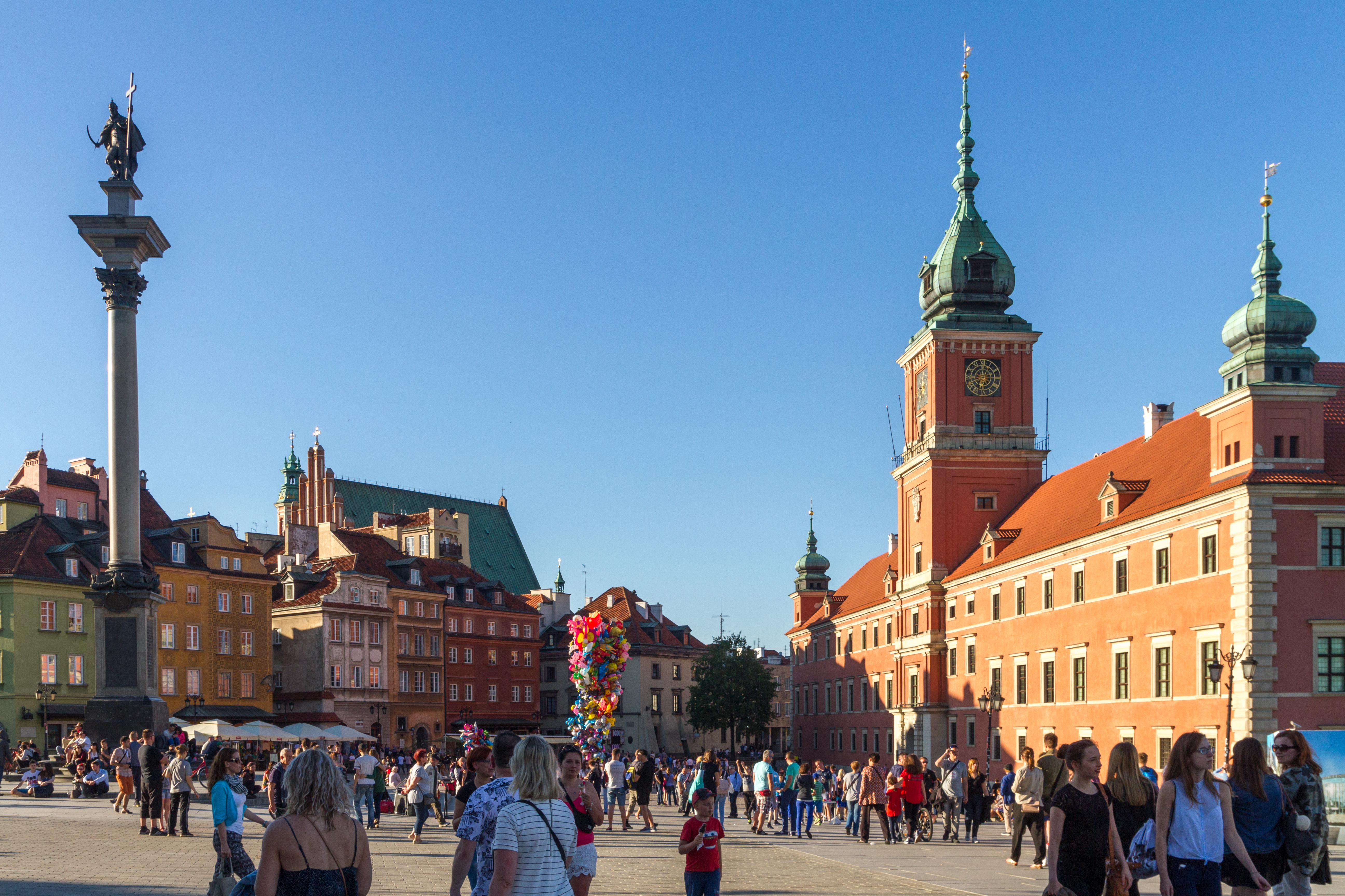 Castle Square in Warsaw